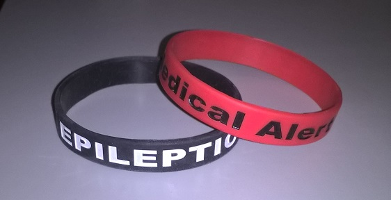 Two epilepsy wrist bracelets, often worn by those with the condition.